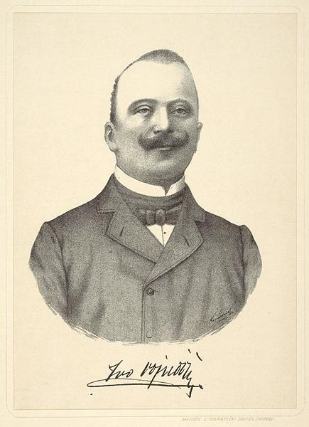 Portrait of Ivo Vojnović on a old croatian book.